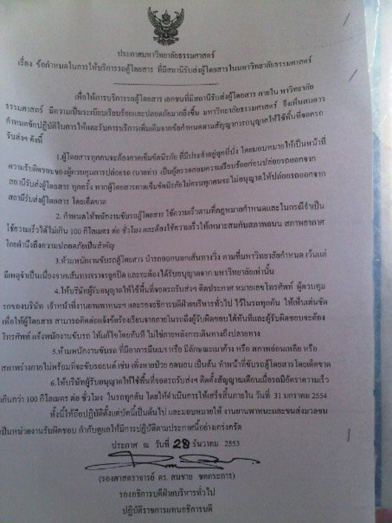 What: The Notification of Thammasat University RE: Regulations governing van transportation service within Thammasat University, dated December 28, 2010. It is urgently issued to cope with concerns of the students and the public as to receiving van transportation service, after the saloon drove by sixteen-year-old girl Orachon (or Phraewa) Thep-hatsadin Na Ayutthaya severely crashed a public van carrying 14 passengers, most of which were Thammasat University students and lecturers, on the Uttraphimuk Toll Way, leaving 8 died and 6 seriously injured.